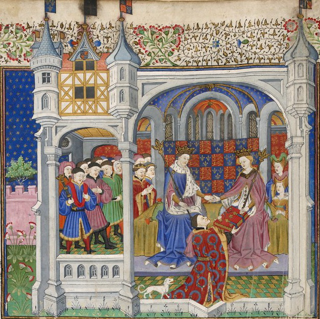 John Talbot, 1st Earl of Shrewsbury (identified by his Talbot dog), presenting the book to queen Margaret seated in a palace beside king Henry VI, and surrounded by the court. (British Library, Royal 15 E VI f. 2v)